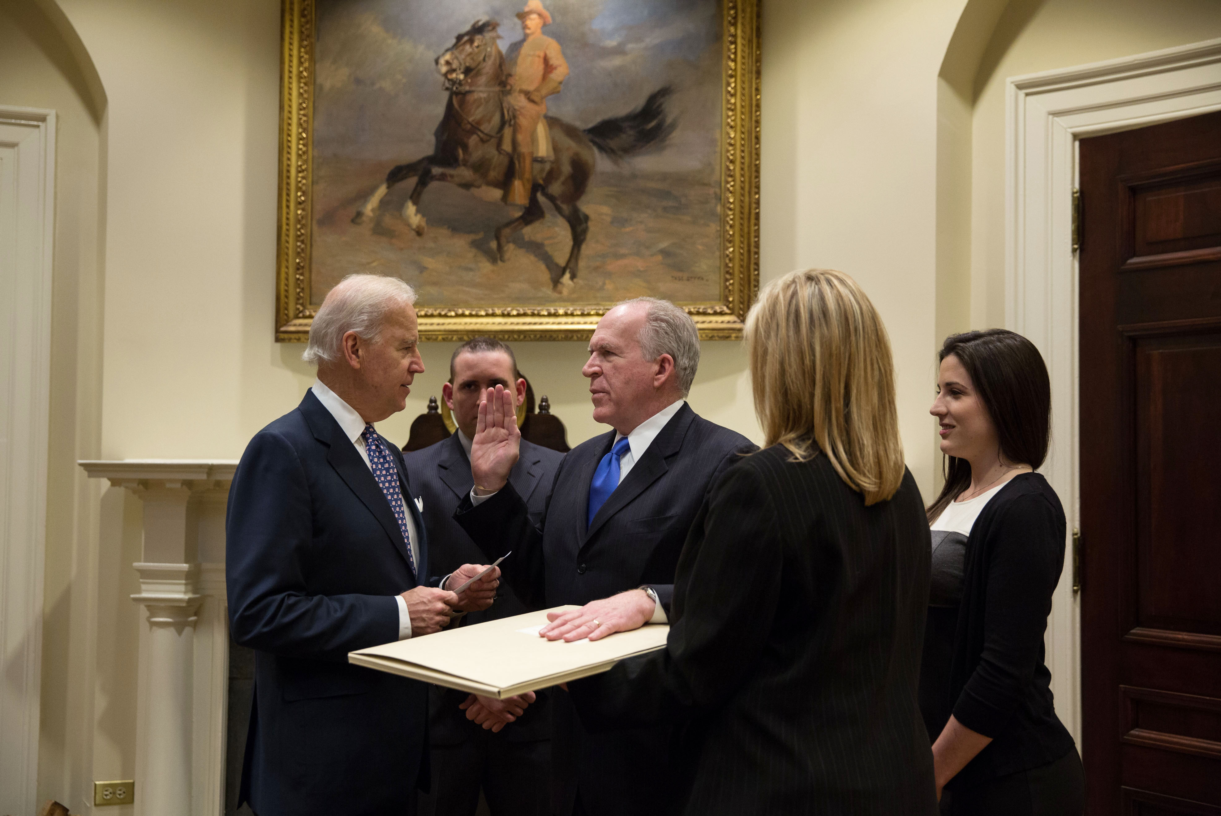 United States Vice President Joe Biden swears in CIA Director John Brennan in the Roosevelt Room of the White House on 8 March 2013. Members of Brennan's family stand with him. Brennan was sworn in with his hand on an original draft of the United States Constitution, dating from 1787, which has George Washington's personal handwriting and annotations on it.